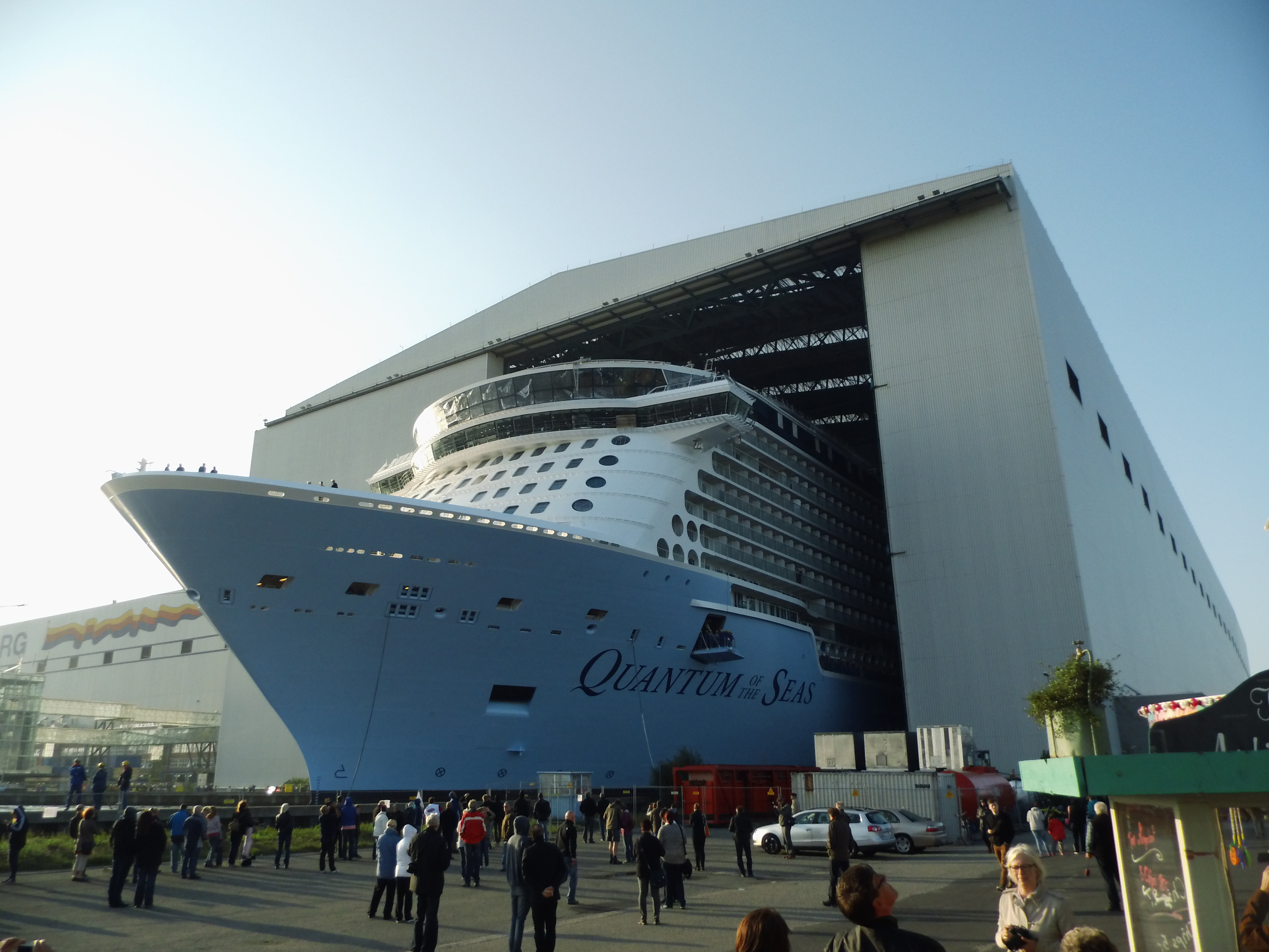 Cruise ship "Quantum "Quantum of the Seas" is floating out at shipyard "Meyer Werft", Papenburg, Germany